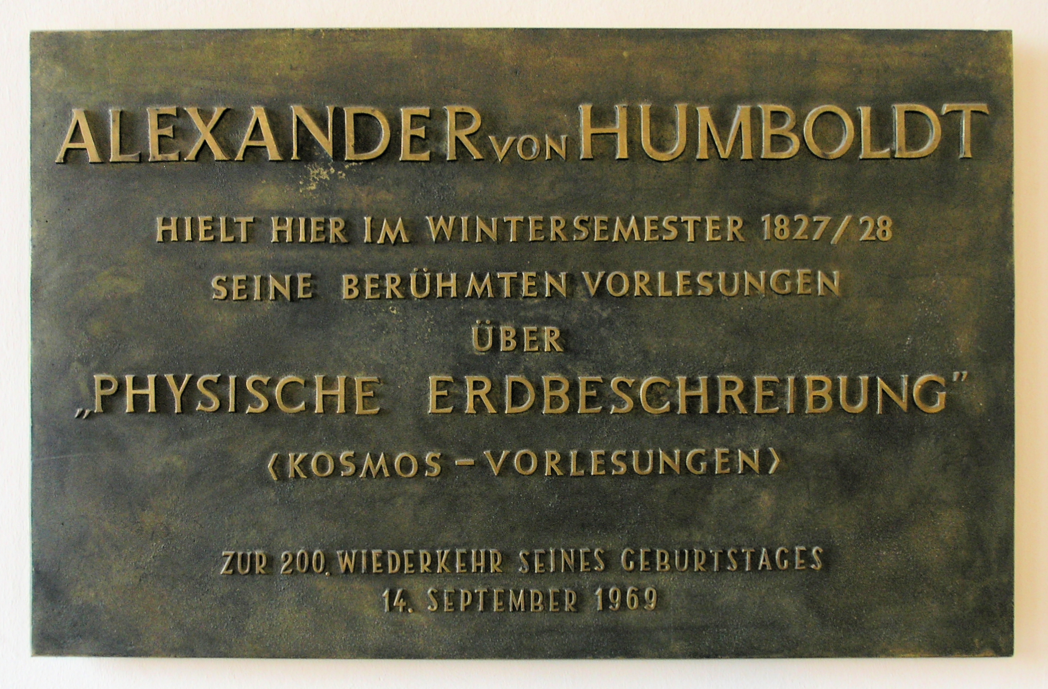 Memorial plaque, Alexander von Humboldt, Unter den Linden 6, Berlin-Mitte, Germany Koordinate:52°31′5″N 13°23′37″E / 52.51806°N 13.39361°E